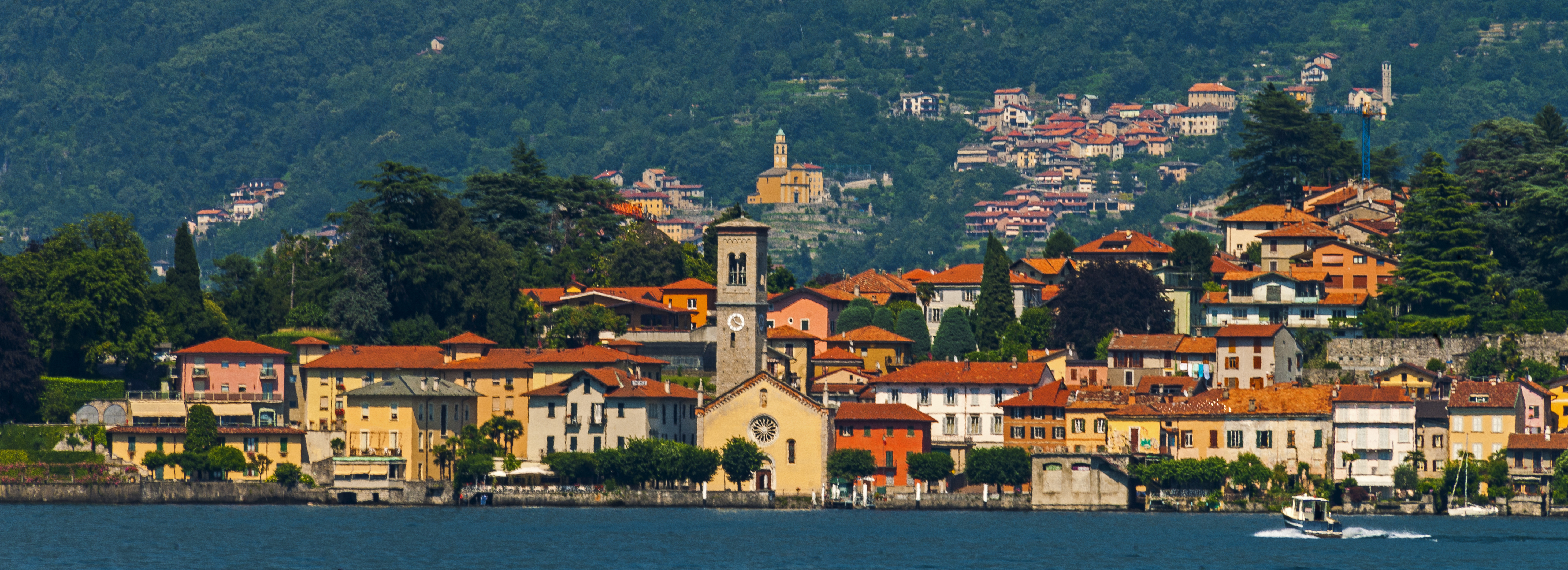 Central Torno from the south on the ferry up Lake Como